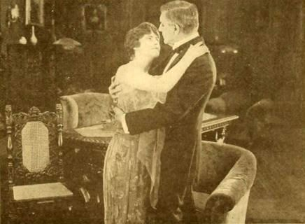 Still from the American film The Hidden Truth (1919) with Anna Case and Charles Richman, on page 335 of the January 18, 1919 Moving Picture World.